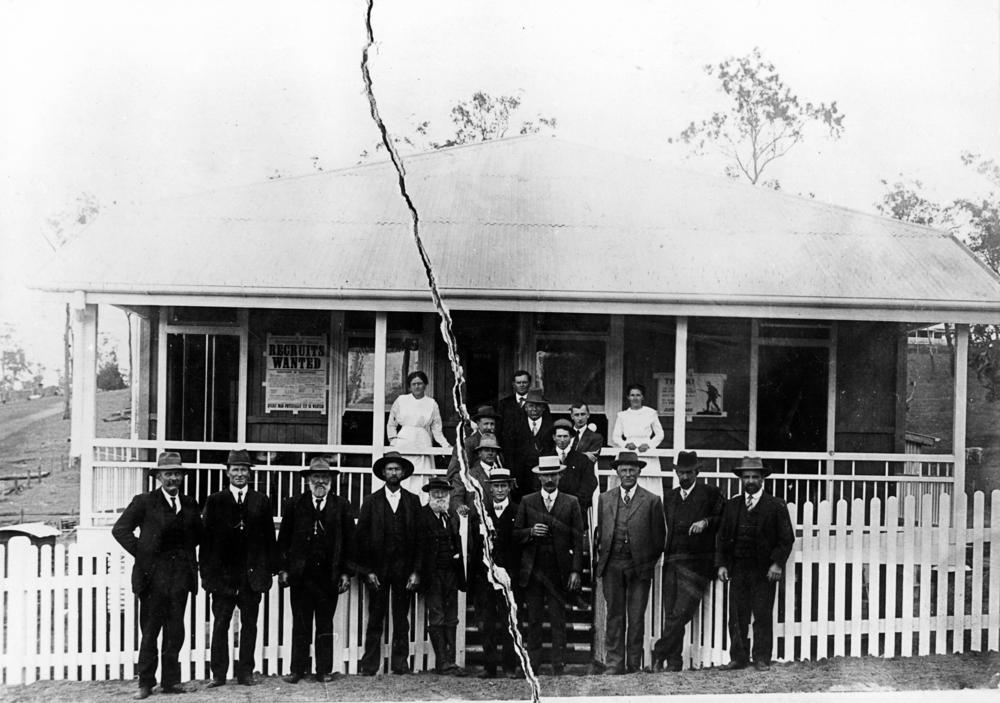 Kilcoy Shire Chambers, ca. 1916 Civic leaders standing outside the Shire Chambers in Kilcoy, ca. 1916. Posters recruiting local men and women for service in World War 1 are visible on the walls.